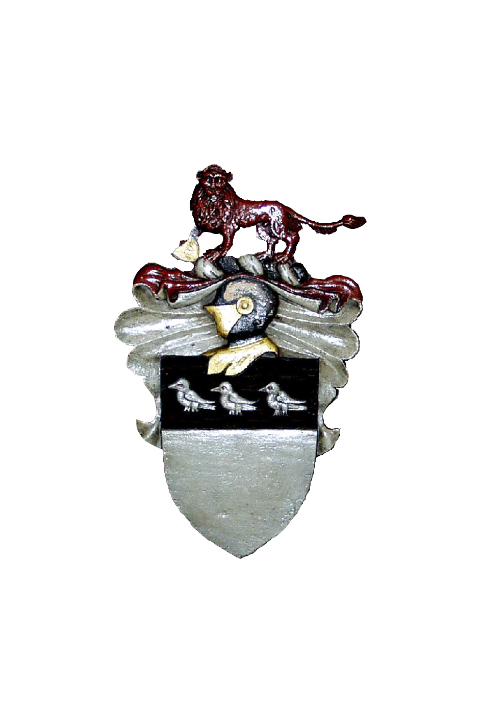 Coat of arms with crest from a monument in Worcester Cathedral dated 1608 Wylde of Worcester Argent, on a chief sable, three martlets of the field. Crest : A lion passant guardant gules, resting the dexter paw upon an escutcheon argent. (C 30 and K. 4, Coll. Arm., ff. 84b, 40; and Add. MS. 198 19.)